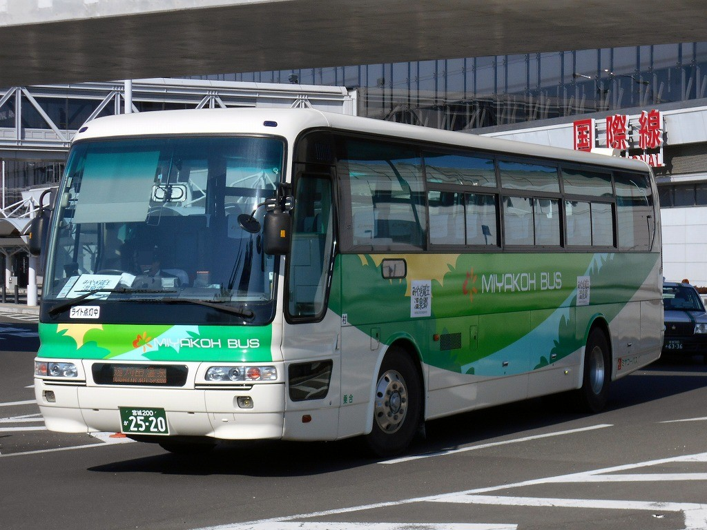 Miyakoh bus Sendai Airport-Togatta hot springs